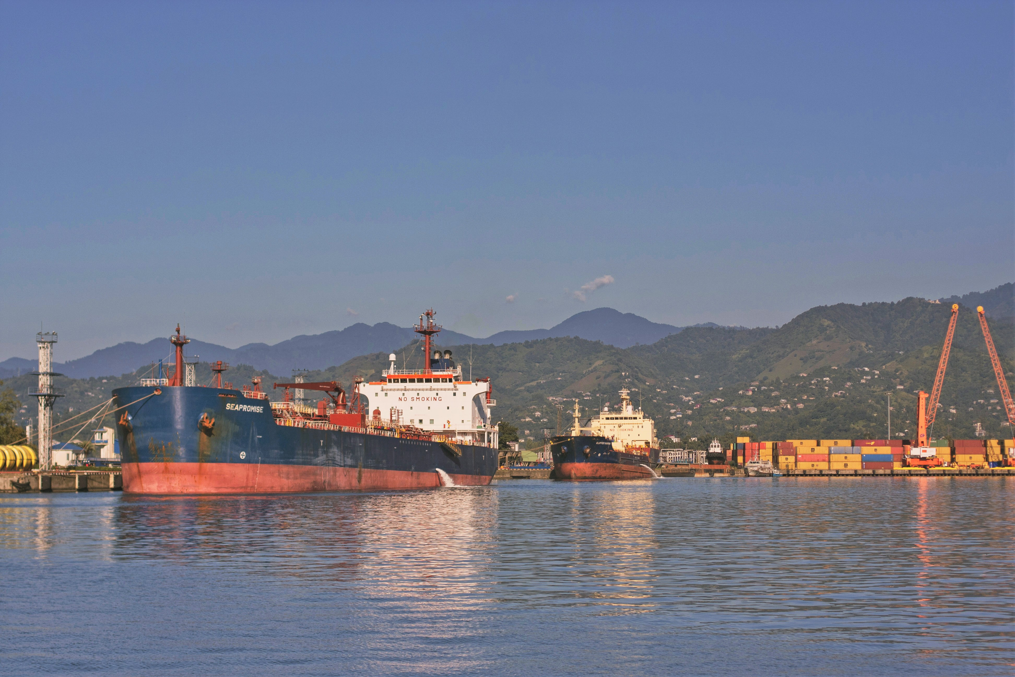 Port of Batumi, Georgia